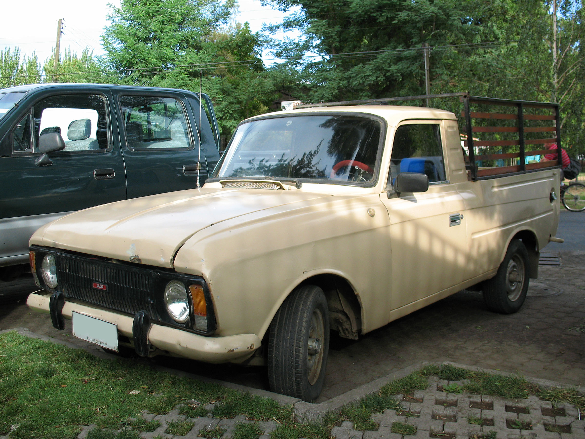 In ChiLe this was sold as Lada